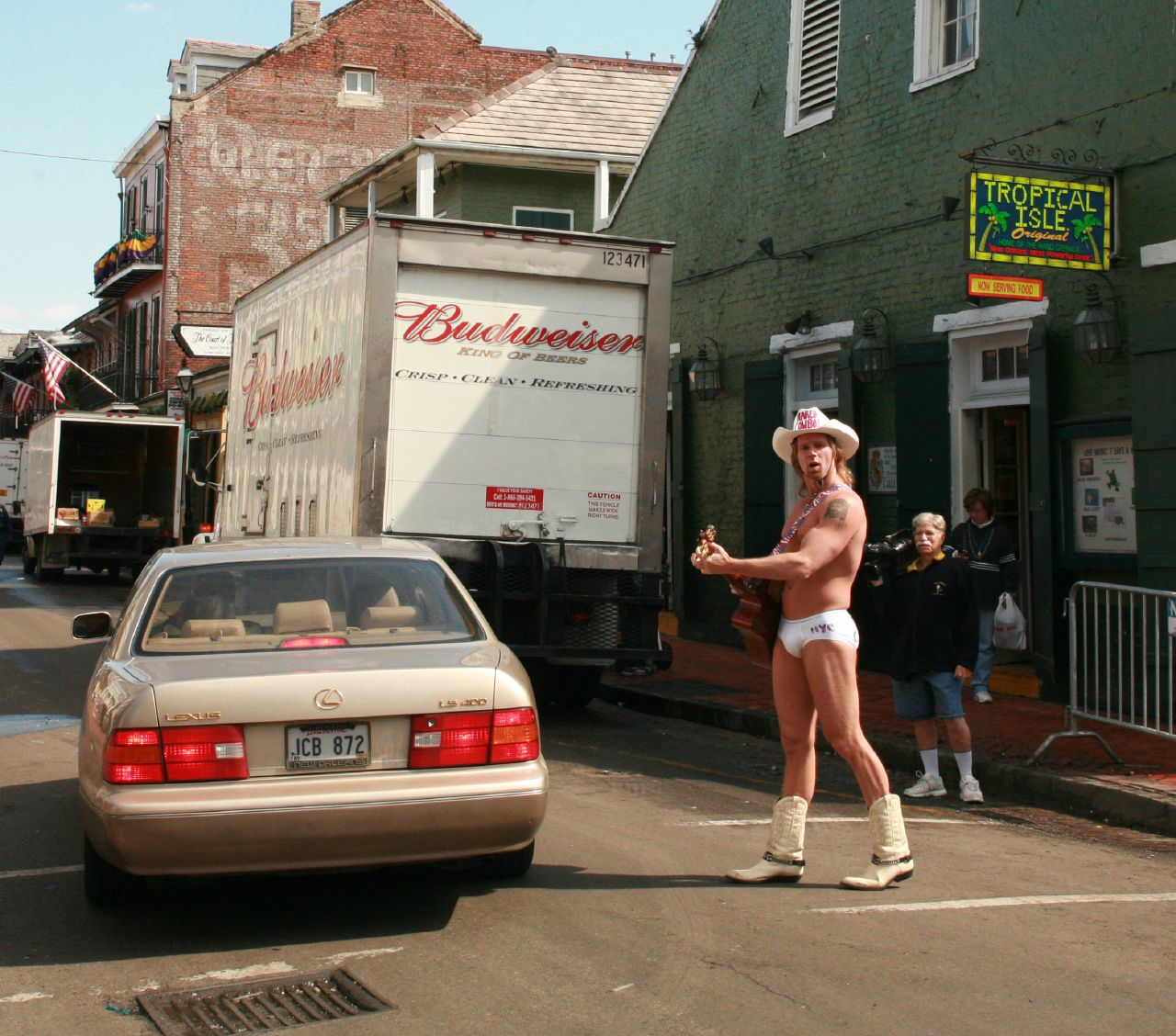 New Orleans: "Naked Cowboy" street musicians in the French Quarter on Bourbon Street